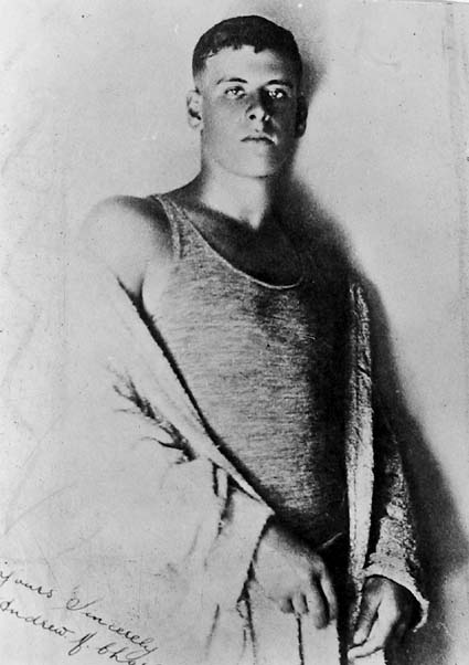 Boy Charlton, champion Australian swimmer of the 1920s and 30s